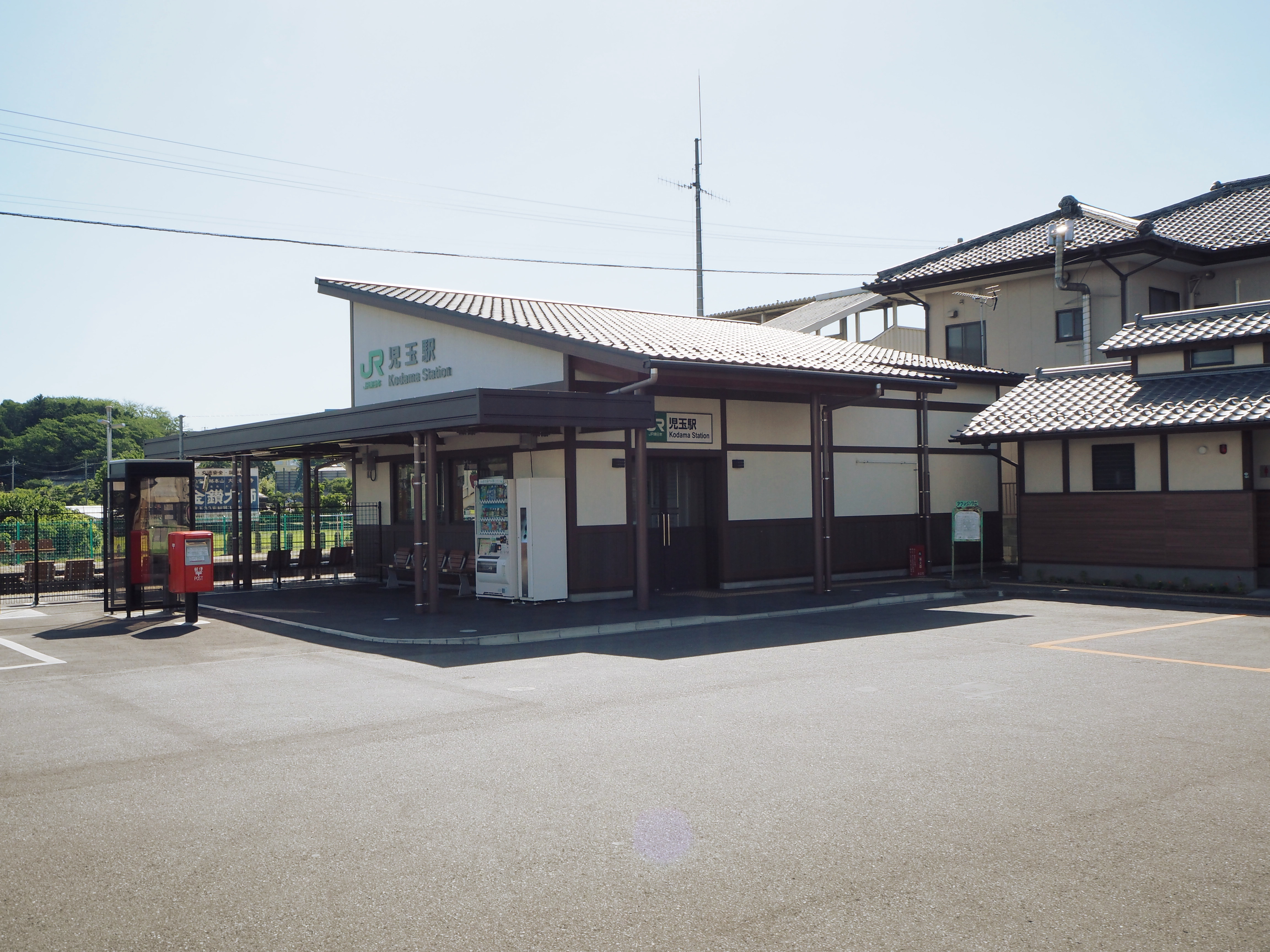 Kodama Station